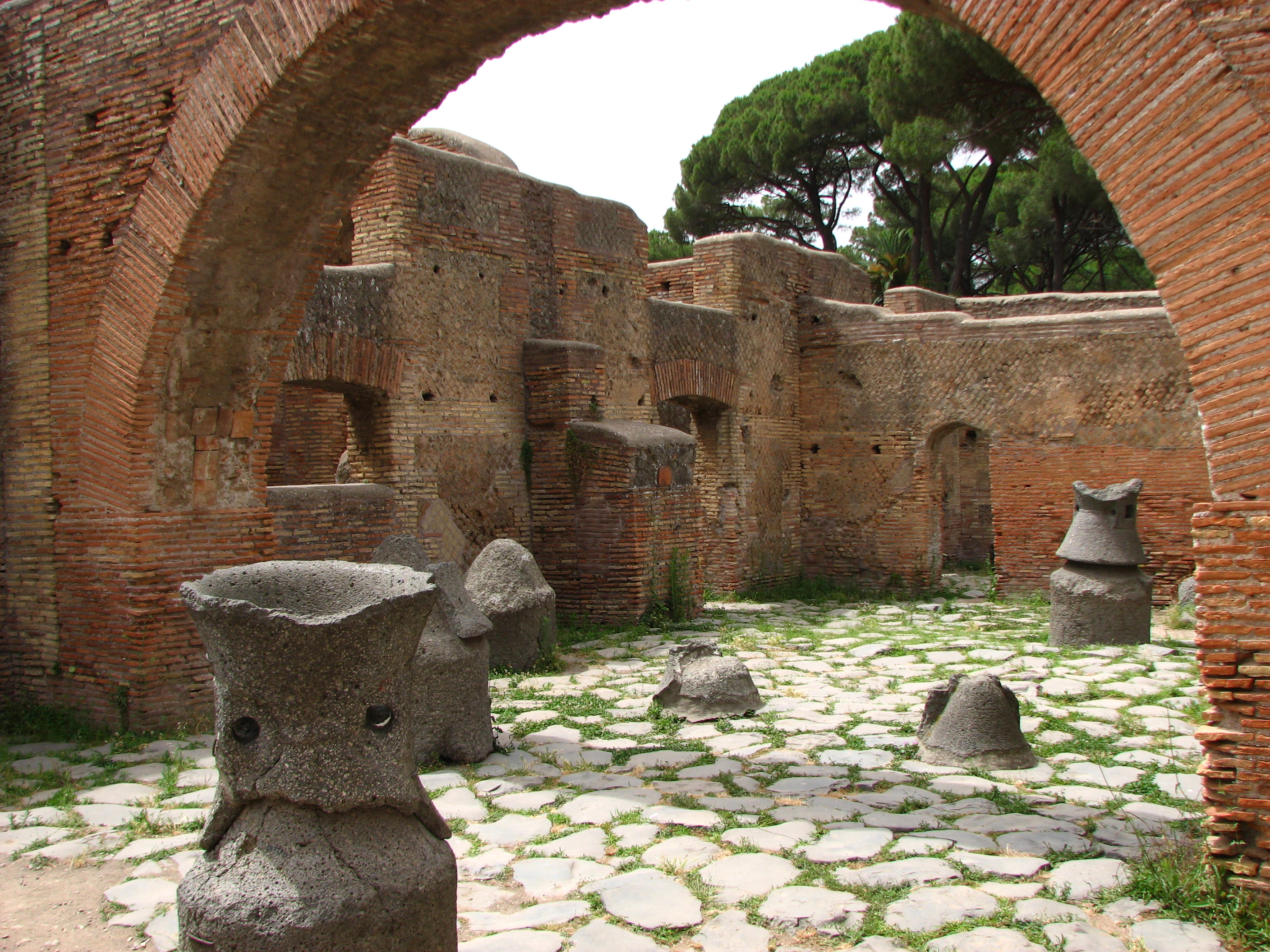 Hall with millstones. Caseggiato dei Molini (House of the Millstones), Ostia Antica, Latium, Italy.